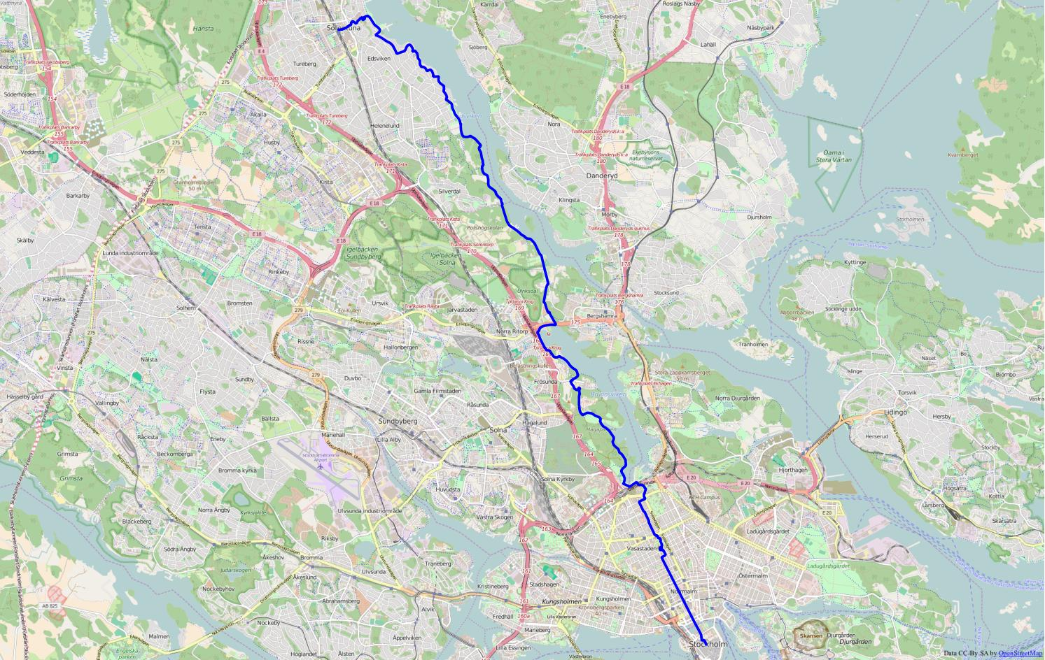 The Sollentunastråket hiking trail in Stockholm, Sweden.